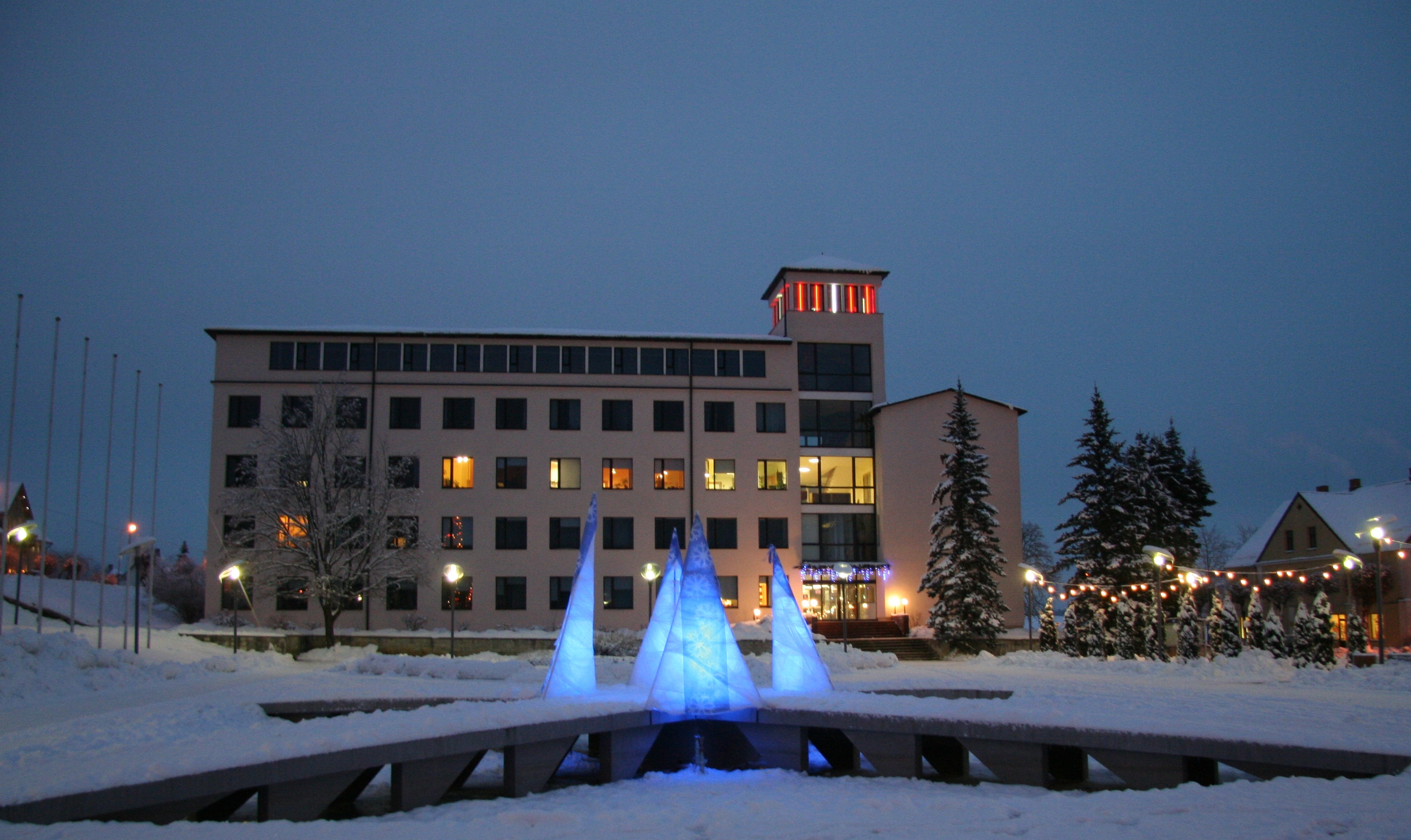 Foto: Santa Jaujeniece